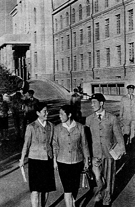 Kim Il-sung University circa 1960